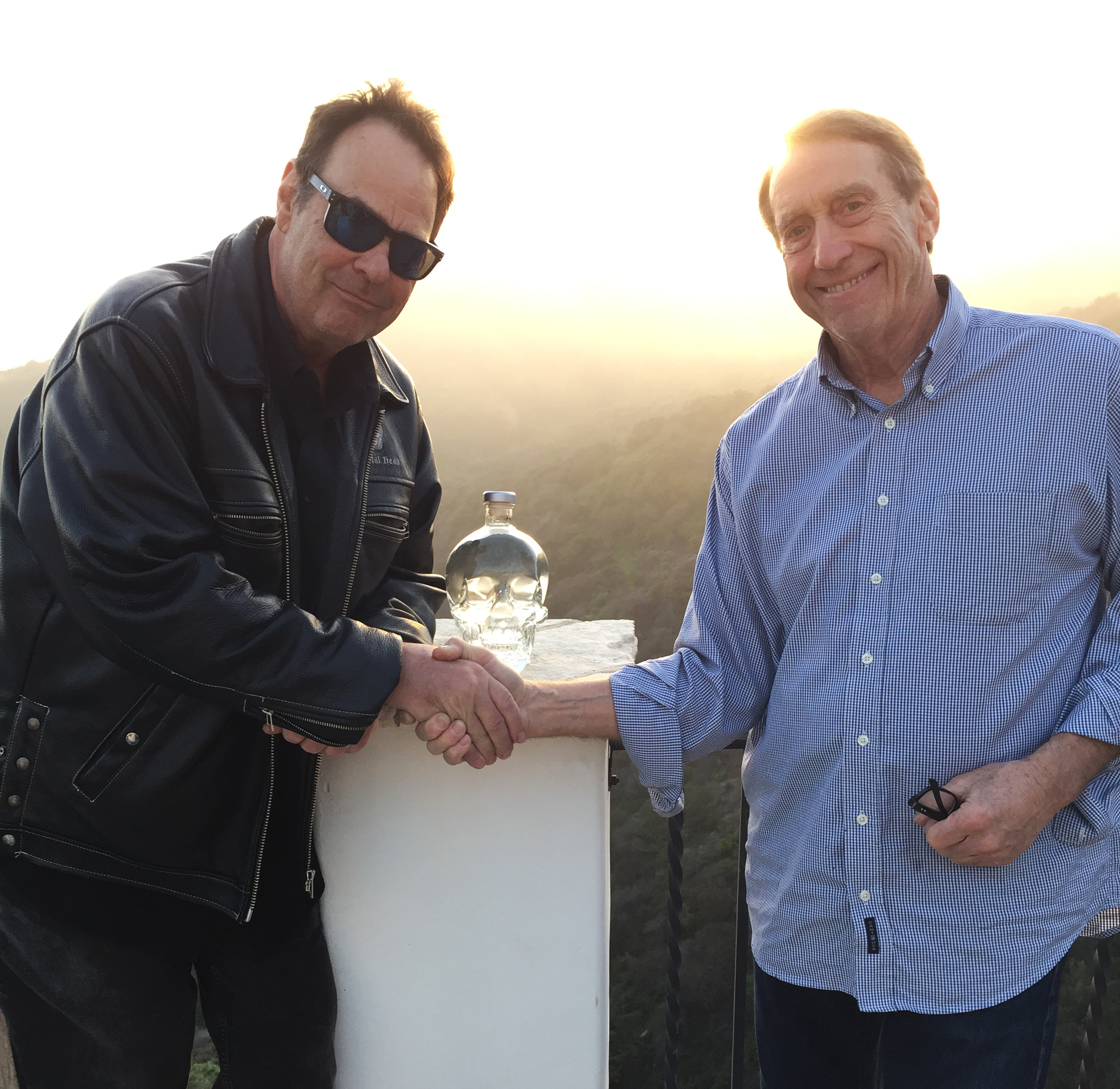 Founders Dan Aykroyd and John Alexander